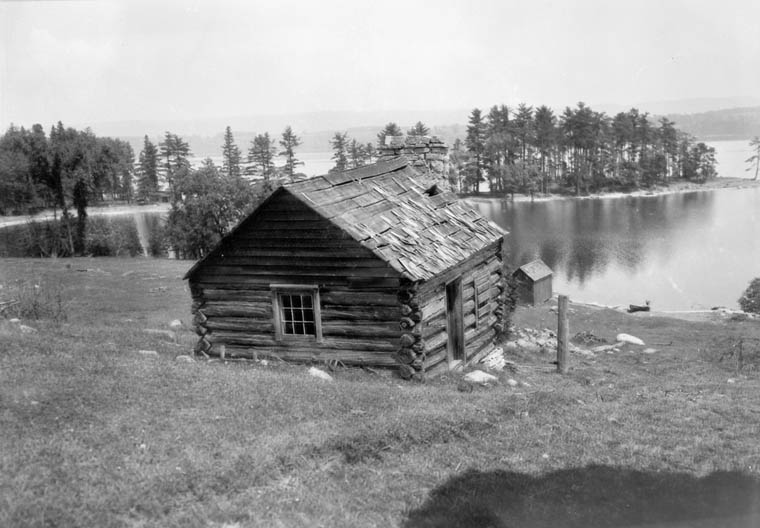 Outbuilding, Pinhey Homestead, erected c. 1825, March Township, Carleton County, Ontario. June 8, 1925. Now in the Kanata community of Ottawa, Ontario, Canada.